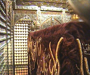 Tomb of Sultan Abed Al Qader Al Gelani